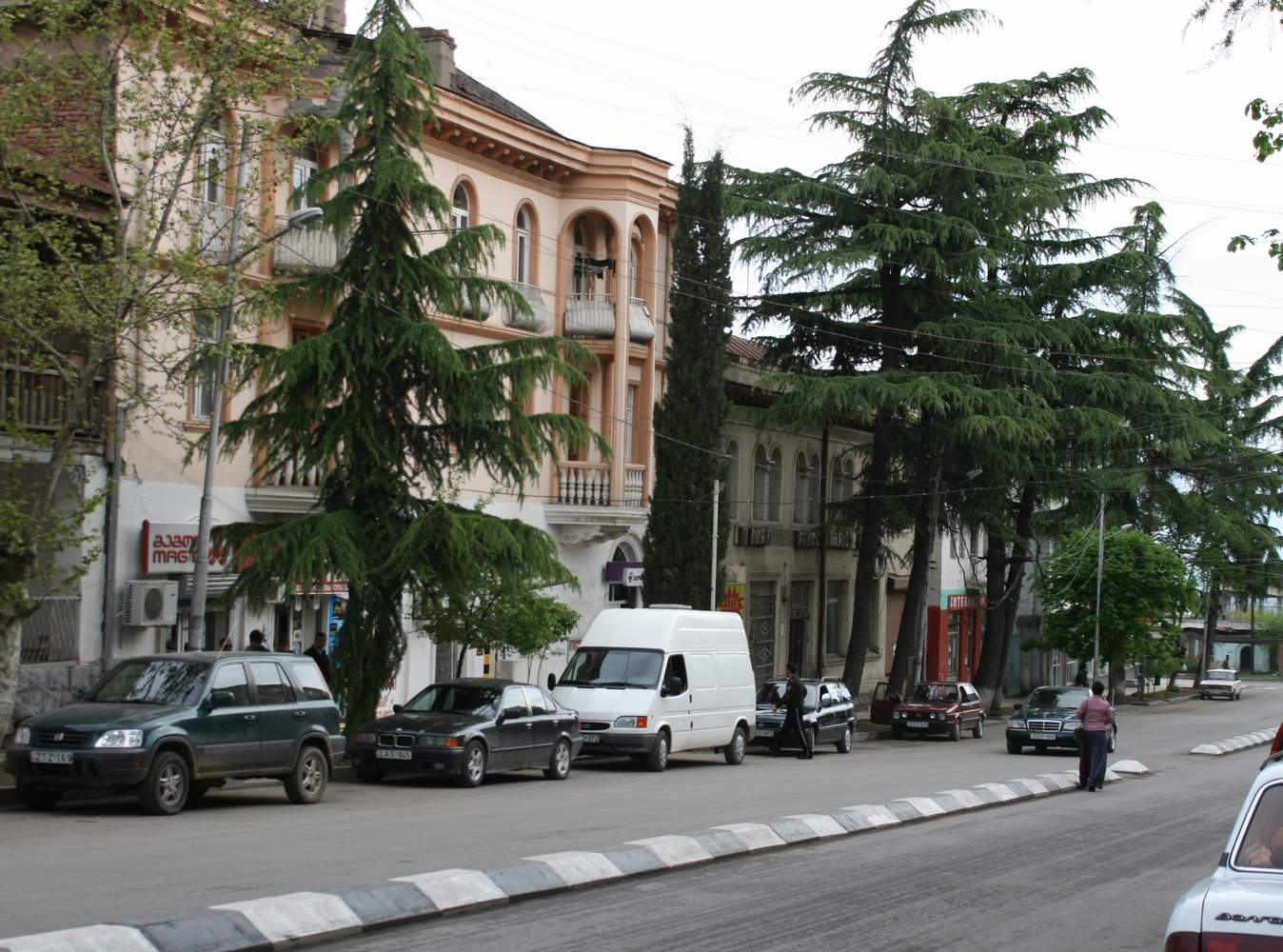 Gurjaani. Central part of the town